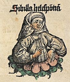 Woodcut from the Nuremberg Chronicle